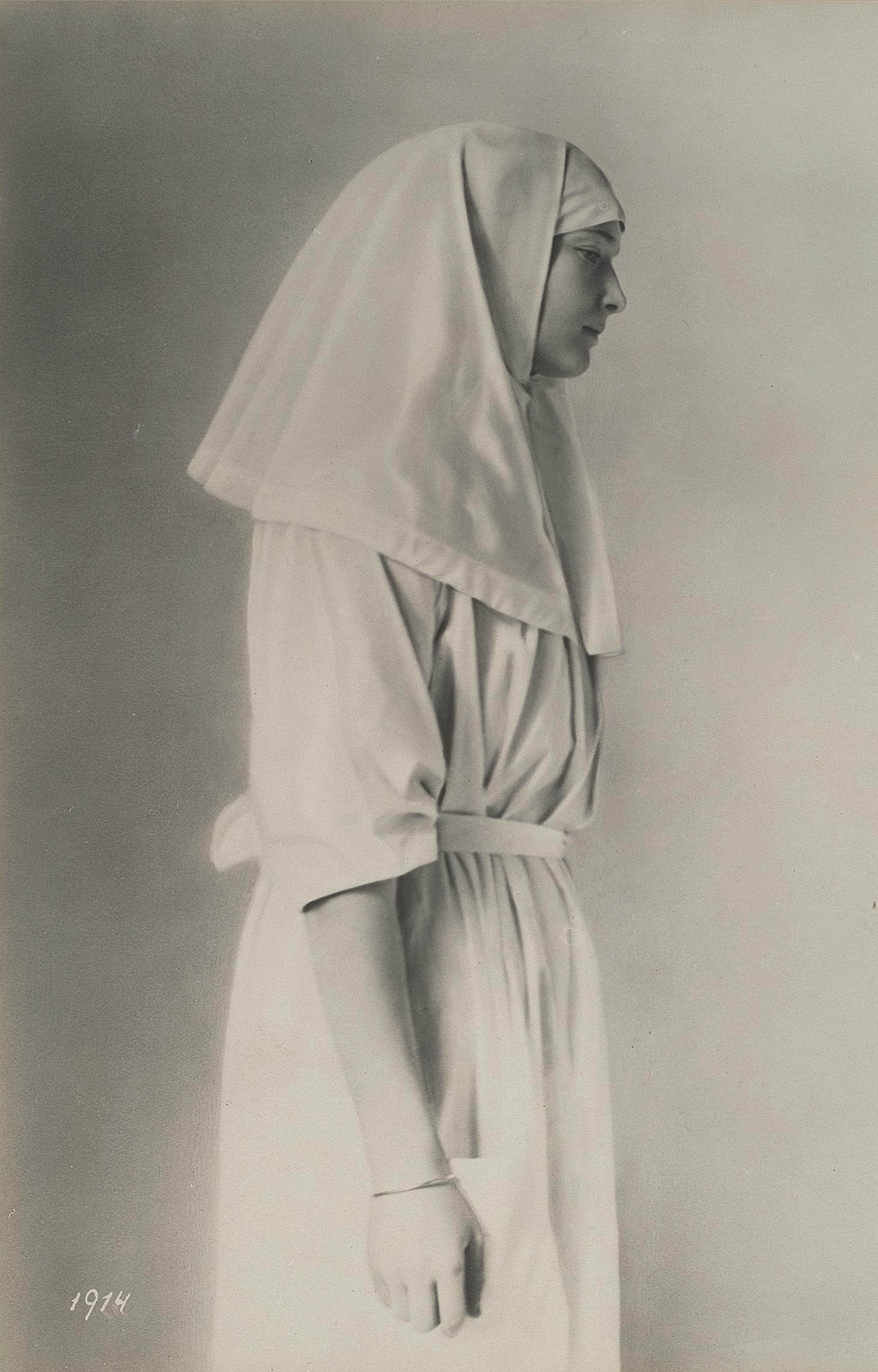 Grand Duchess Tatiana Nikolaevna in her nurse's uniform in a formal portrait